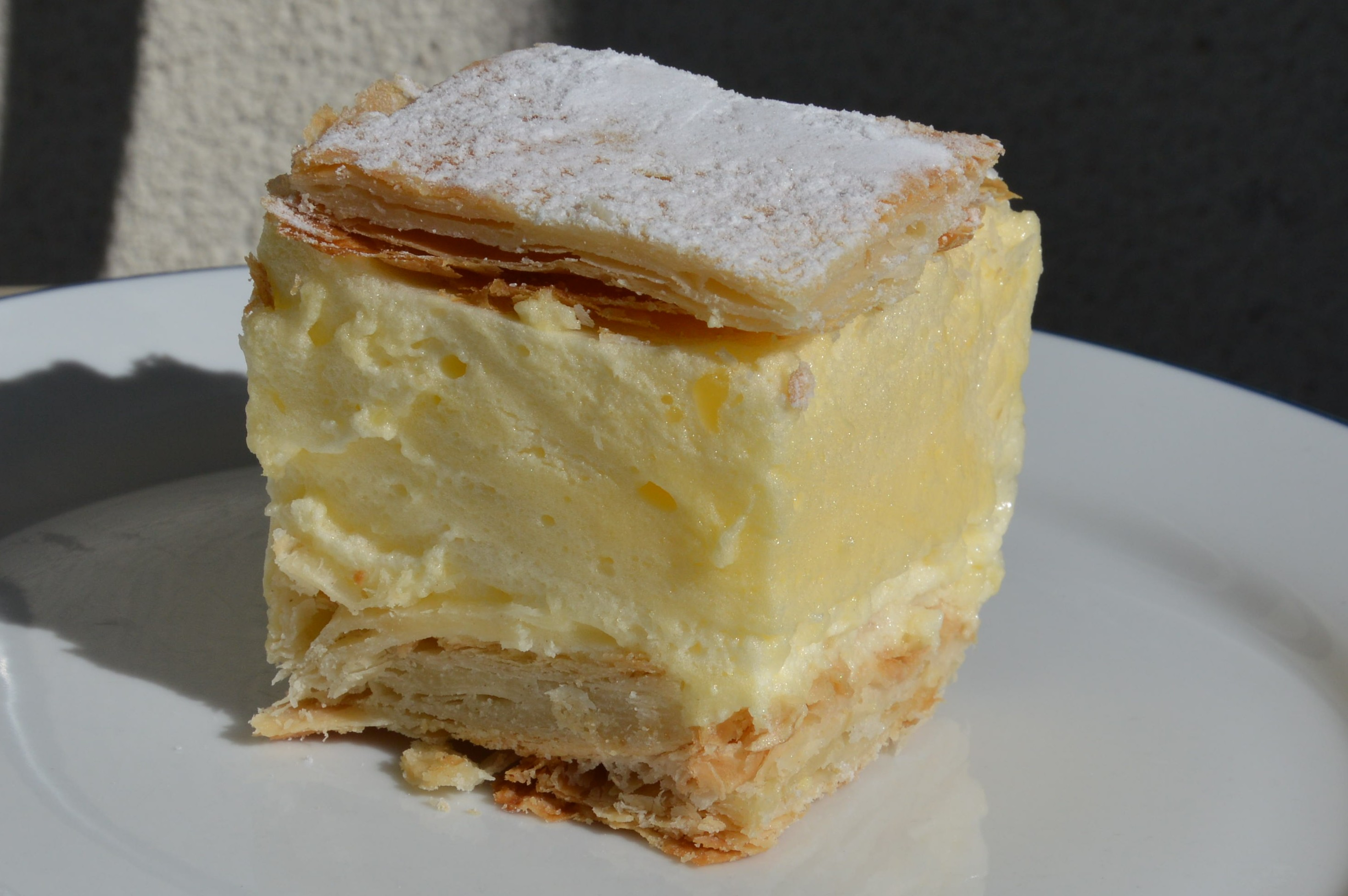 A Hungarian "krémes" as prepared by Ribizli Cukrászda on Nagy Lajos király útja, Budapest District 14, Hungary